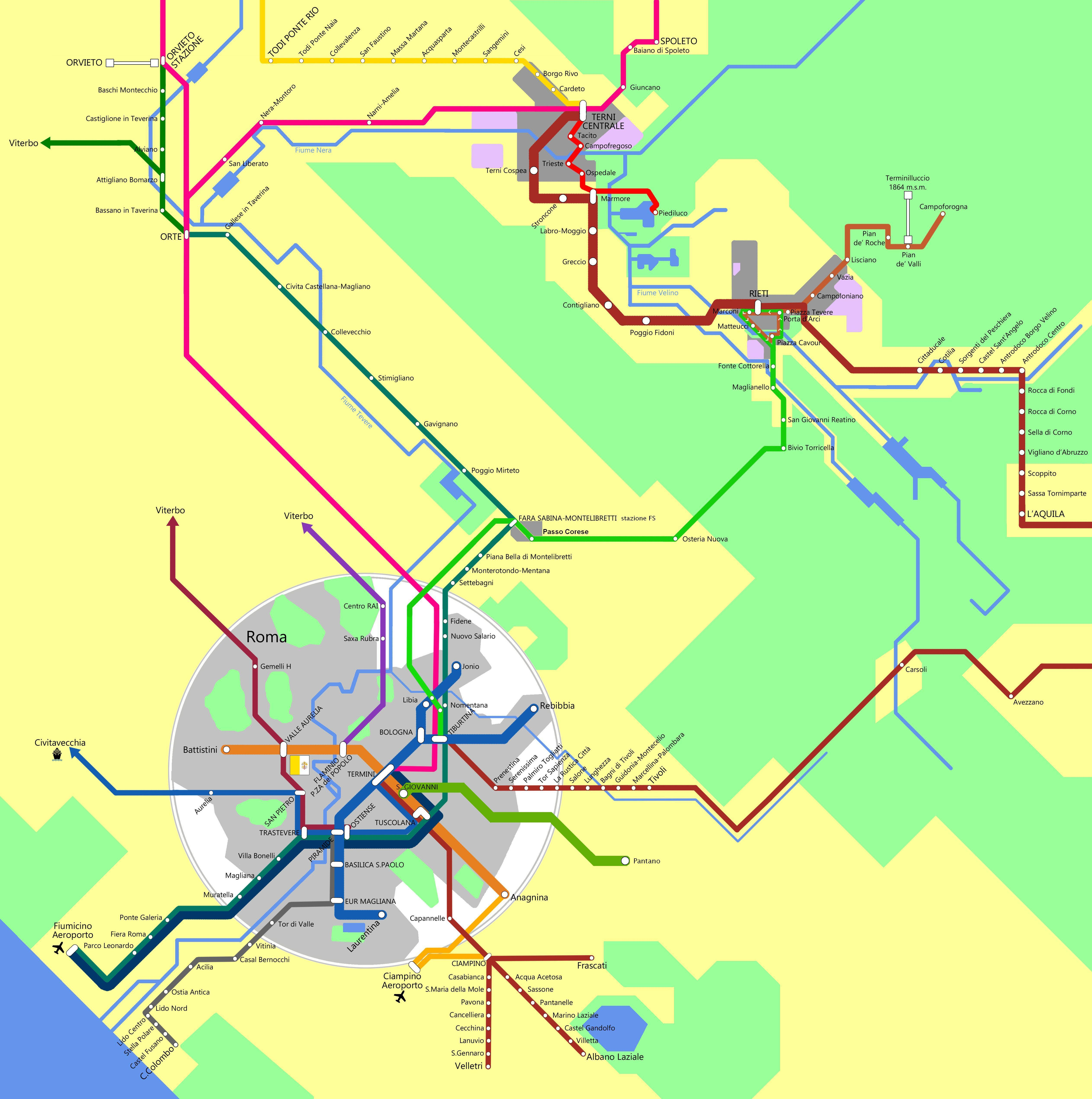 public transportation network in north-eastern district of metropolitan area of Rome